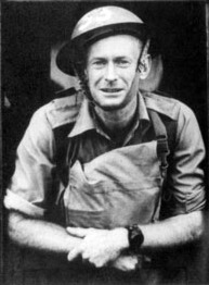 Photo of Gilbert Mant